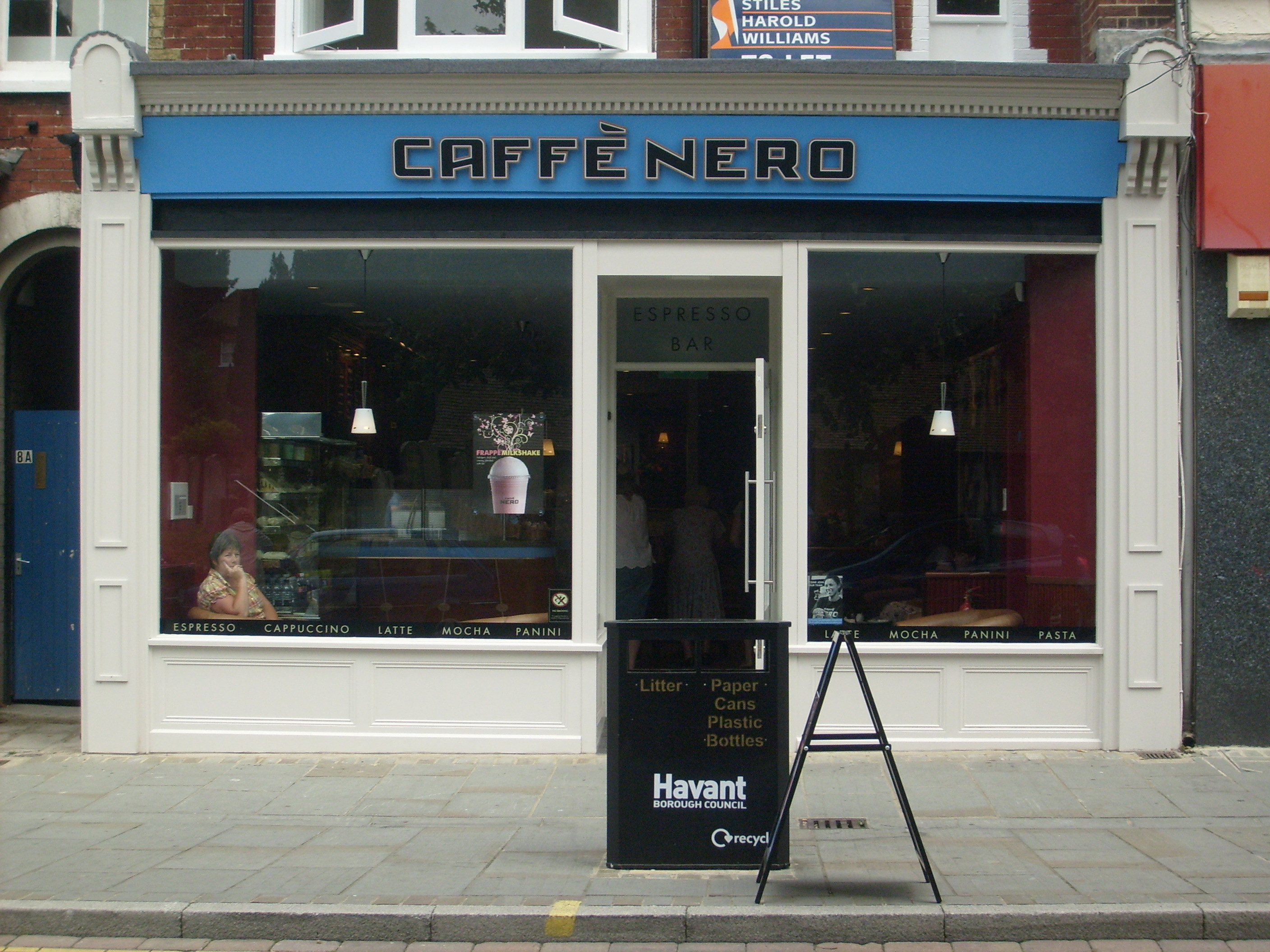 A Caffe Nero in Havant, England.